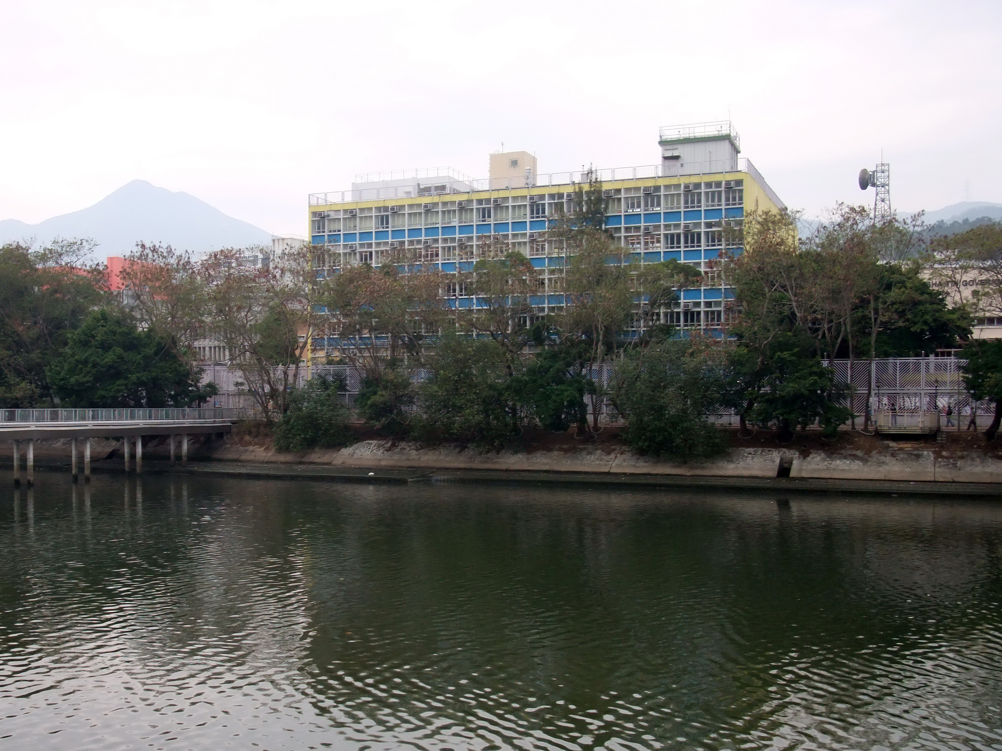 Sha Tin Government Secondary School, Hong Kong.